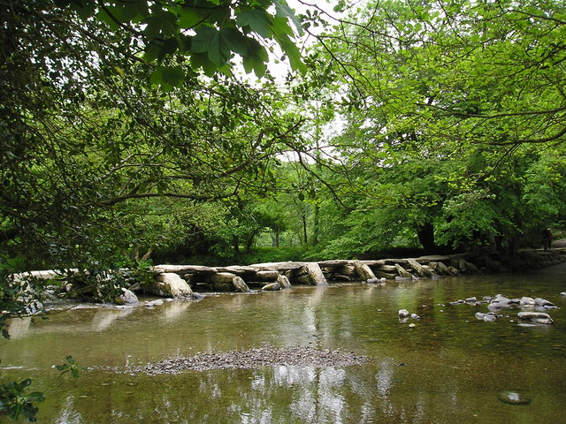 Tarr Steps Prehistoric clapper bridge across the River Barle in the Exmoor National Park